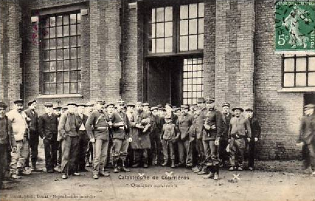 Courrières mine disaster, the tenth march 1906, in the towns of Billy-Montigny, Sallaumines, Méricourt and Noyelles-sous-Lens.